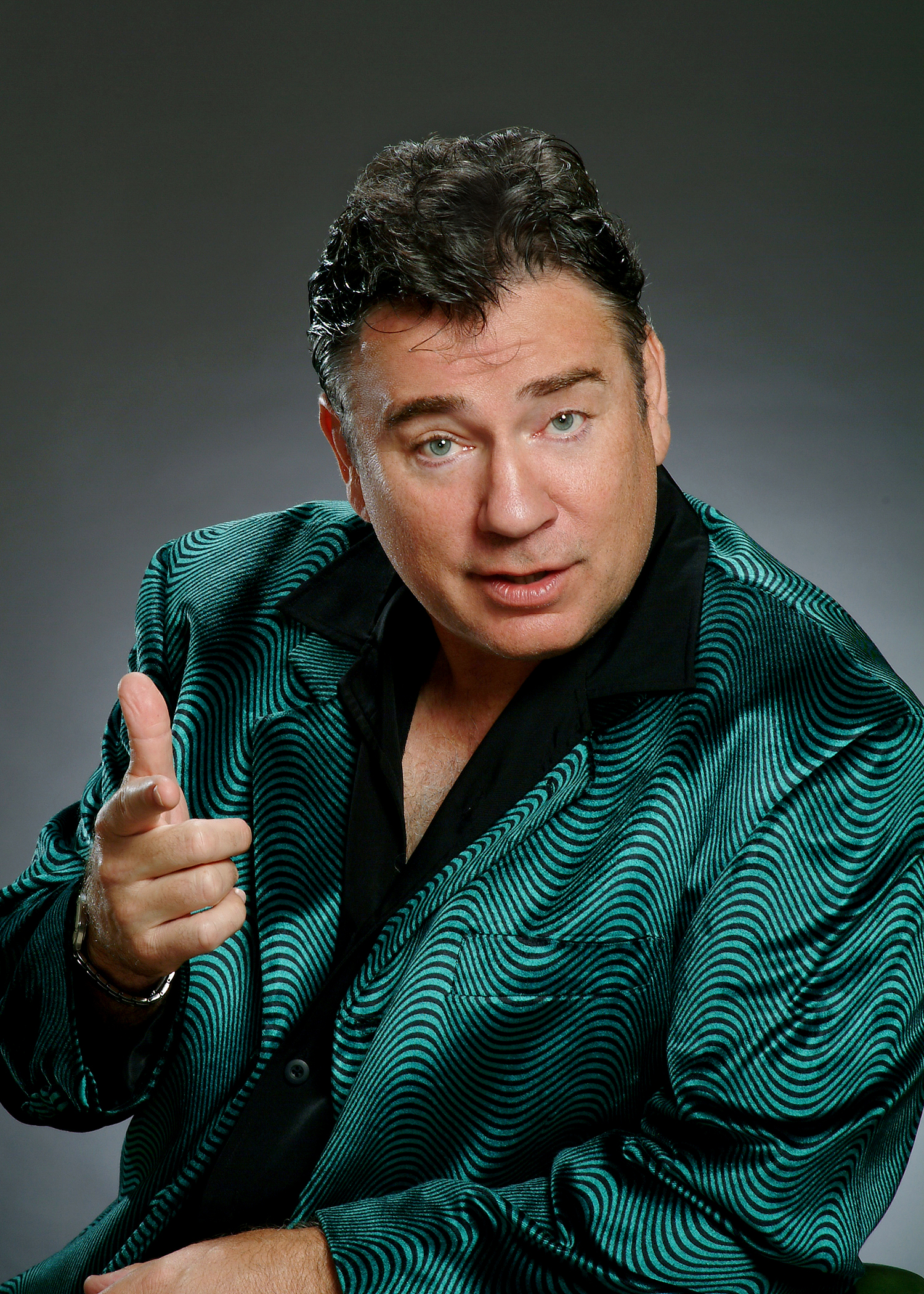 Headshot photo of Jocko Marcellino of Sha Na Na